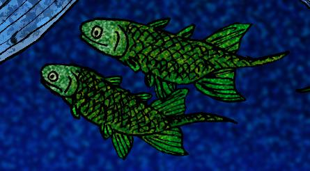 Pair of Late Devonian coelacanthimorphs Strunius (C) Stanton F. Fink